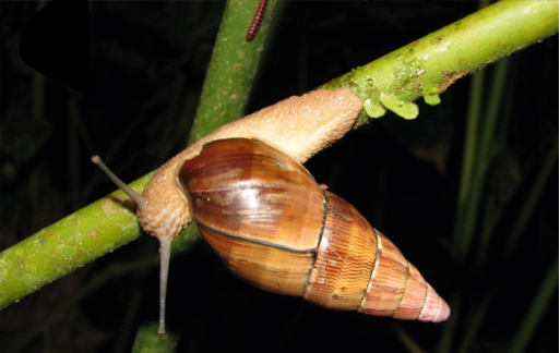 Photo of Corona pfeifferi.